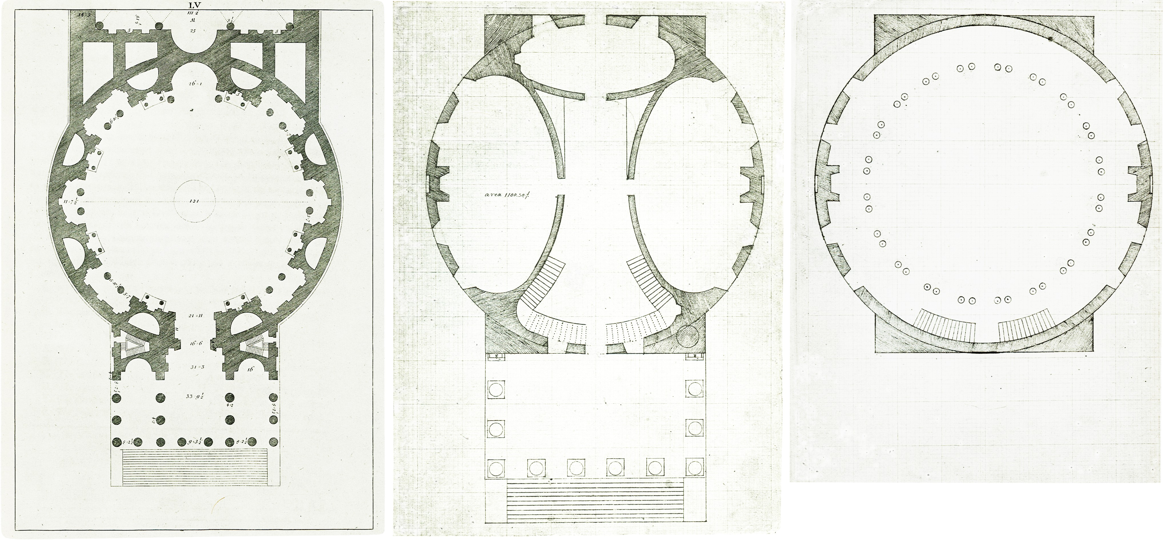 Comparison of the ground plans of the Pantheon in Rome (left) and Thomas Jefferson's Rotunda of the University of Virginia (middle: ground floor, right: dome room). The plan of the Pantheon is the one by Andrea Palladio in its reprint by Giocomo Leoni—i.e. the plan that Thomas Jefferson had access to while designing the Rotunda.